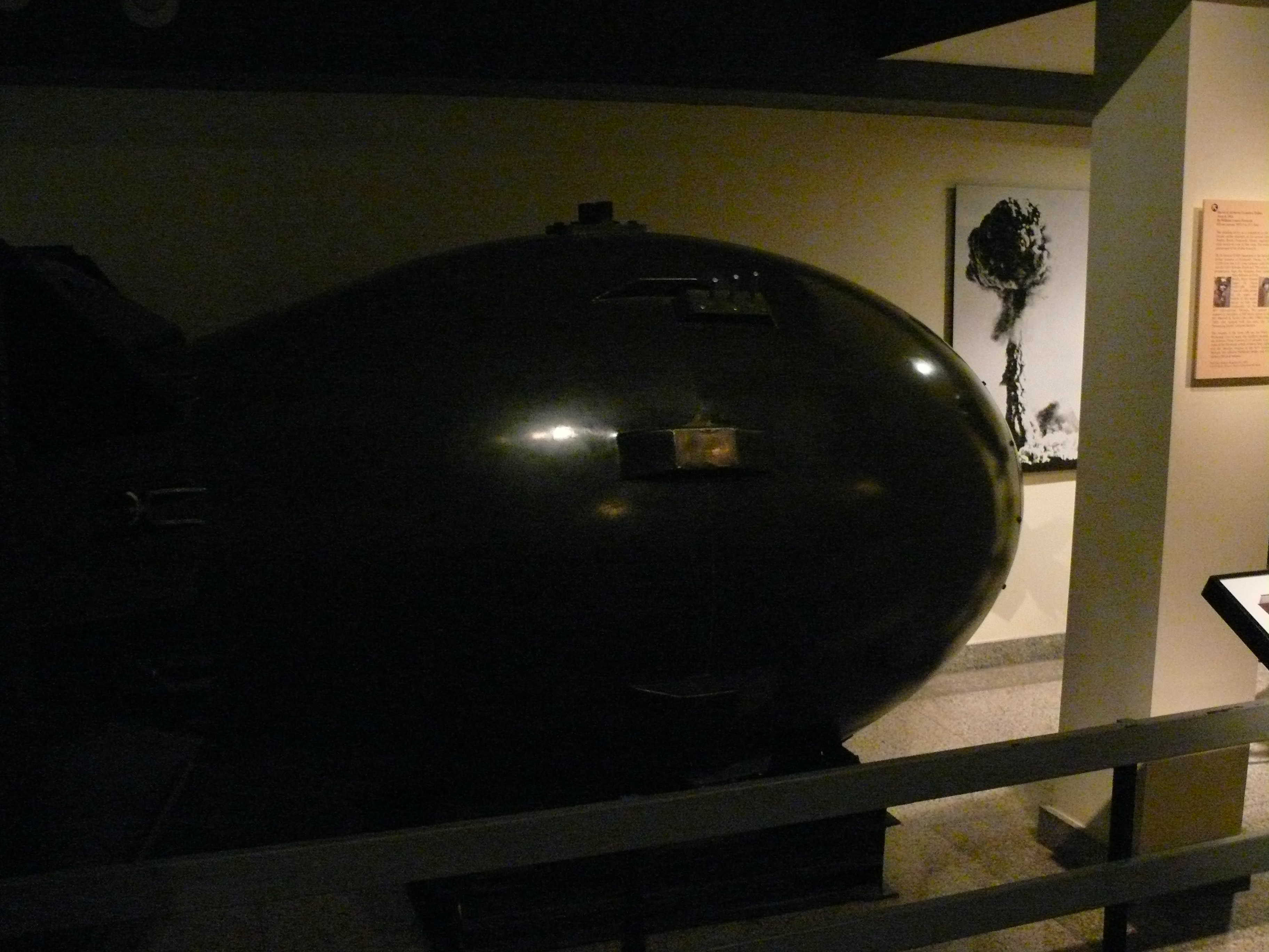 This is a bomb casing of the Mk 3 series Atom Bomb, the same size and configuration as the Fat Man Atomic Bomb in the West Point Museum. Length: 128 inches Diameter: 60 inches Weight: 10,300lbs Weight of Fissionable Plutonium: 30lbs, 2.5lbs of which actually fissioned Explosive Yield: 18-48 kilotons Configuration: Plutonium implosion bomb Est. number of Mk 3 Atomic Bombs Produced: 12 Fat Man was air dropped by Boeing B-29 Superfortress Bockscar on Nagasaki, Japan, on August 9, 1945 11:02am JSP